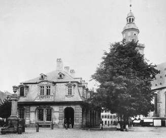 Main Guard and St. Catherine's Church from northwest, photograph around 1860